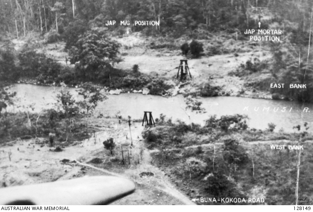 KUMUSI RIVER, NEW GUINEA. 1942-10-21. REMAINDER OF THE WAIROPI BRIDGE AFTER IT HAD BEEN BOMBED AND STRAFED BY ALLIED AIR FORCES. (ALLIED AIR FORCES, SWPA). (PHOTOGRAPH REPRODUCED IN OFFICIAL HISTORY VOLUME: RAAF 1939-42, PAGE 547).